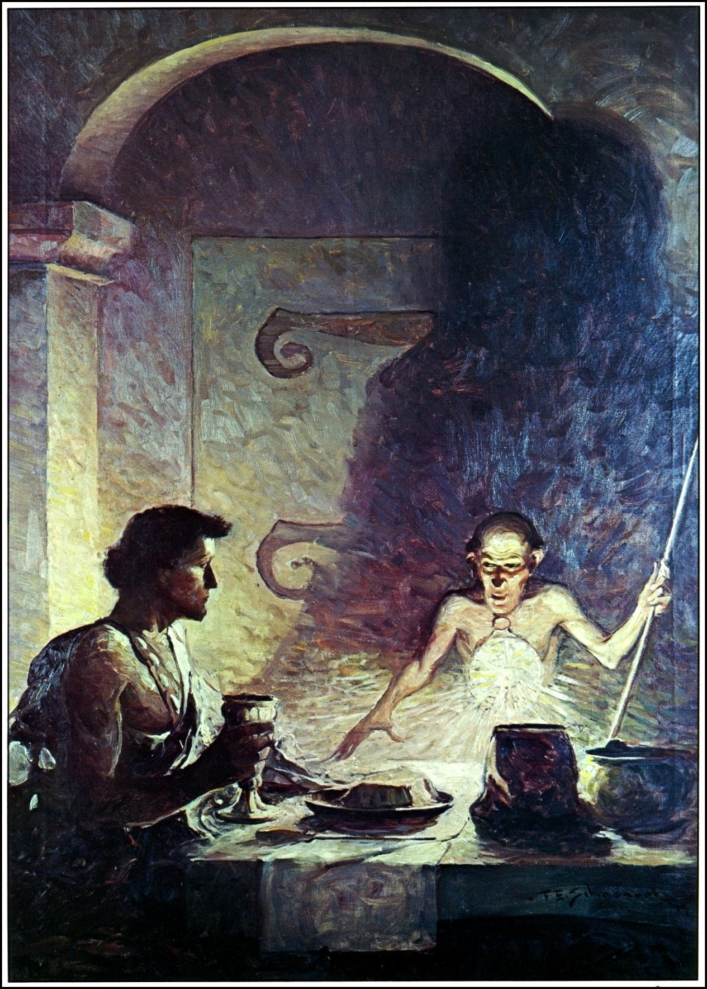 Illustration by Frank Schoonover, from the 1917 edition of A Princess of Mars by Edgar Rice Burroughs. Printed facing page 226. Caption: "THE OLD MAN SAT AND TALKED WITH ME FOR HOURS."